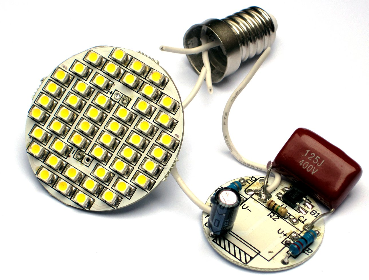 Opened 230V 48x LED lamp; 48 LED, 3 W, E27 screw base. Integrated electronic circuit: Capacitive power supply